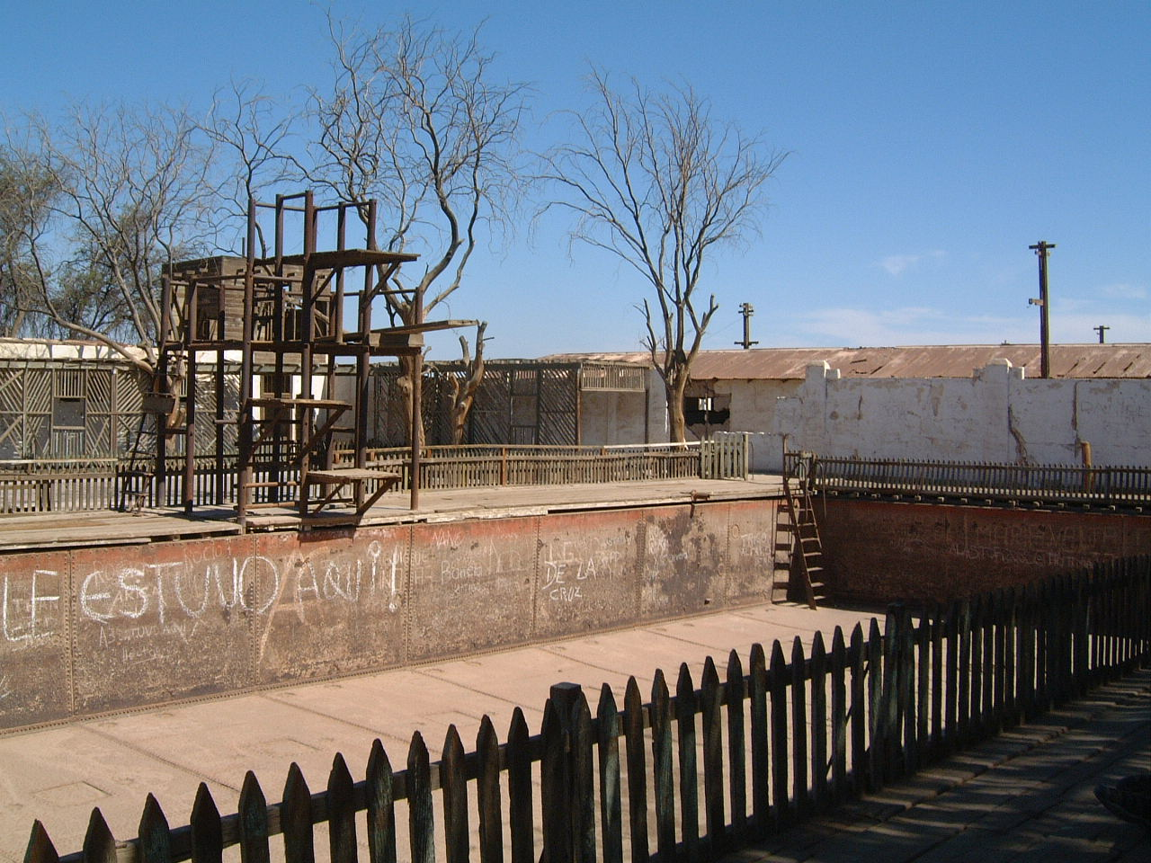 Swimming pool at Humberstone Saltpeter Works Chile